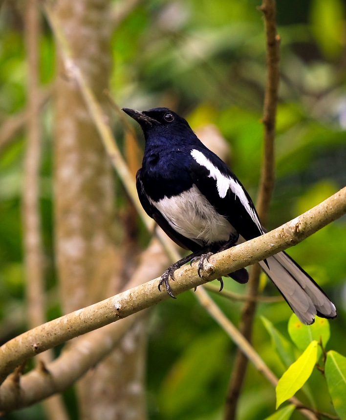 A male Oriental Magpie Robin in Malaysia.